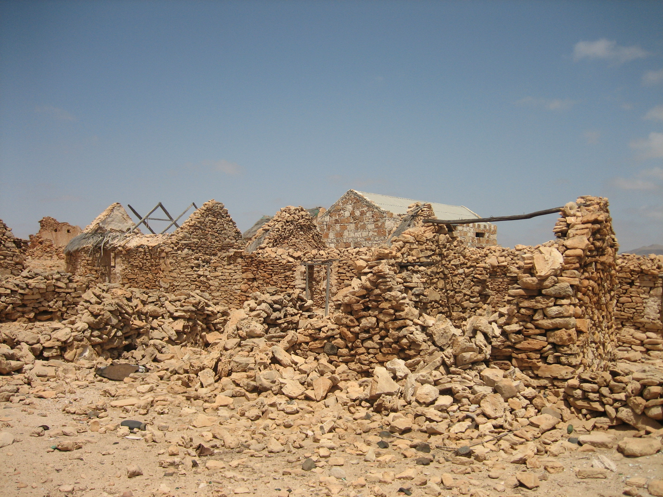 Ruins of the abandoned village of Curral Velho on the island of Boa Vista, Cape Verde